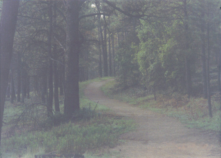 I took photo in 2004.Billy Hathorn (talk) 04:09, 4 July 2008 (UTC)